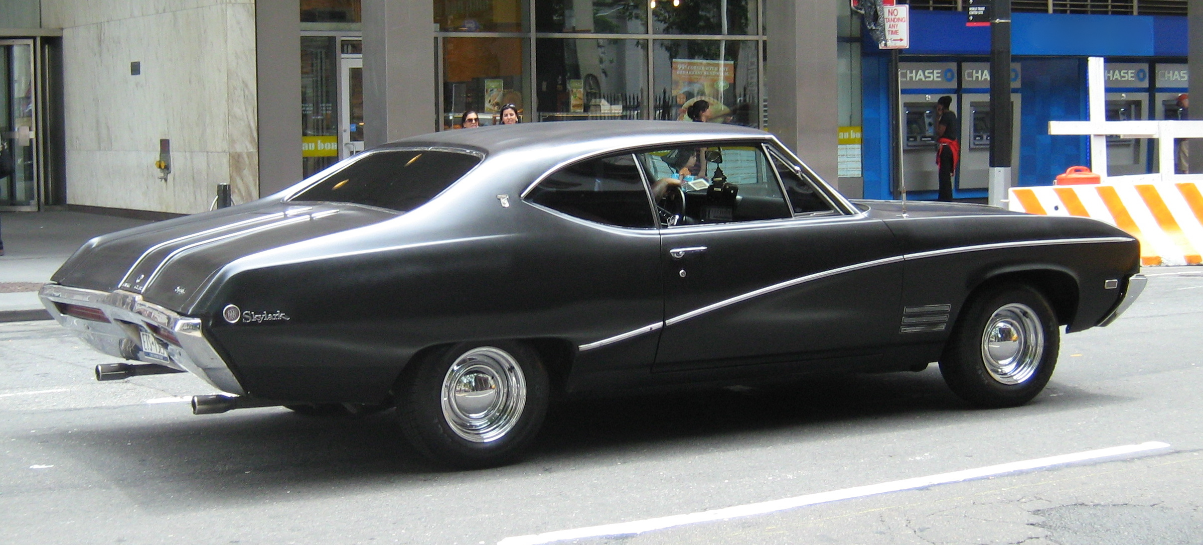 1968 Buick Skylark two-door hardtop (coupe) finished in black and customized including vintage wheels. Photograph taken in New York City.